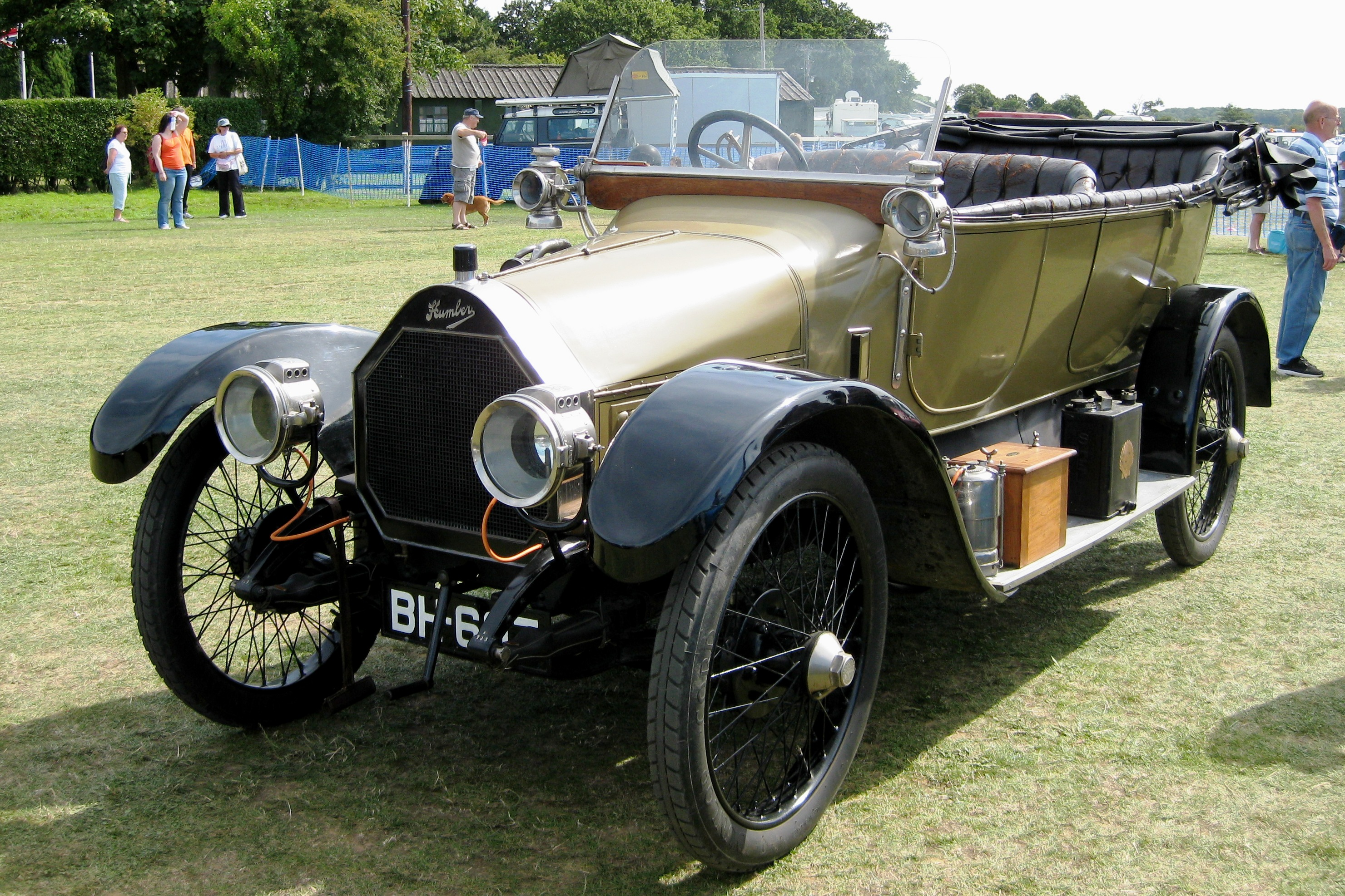 Humber 11 with Torpedo style body near Bury St Eds